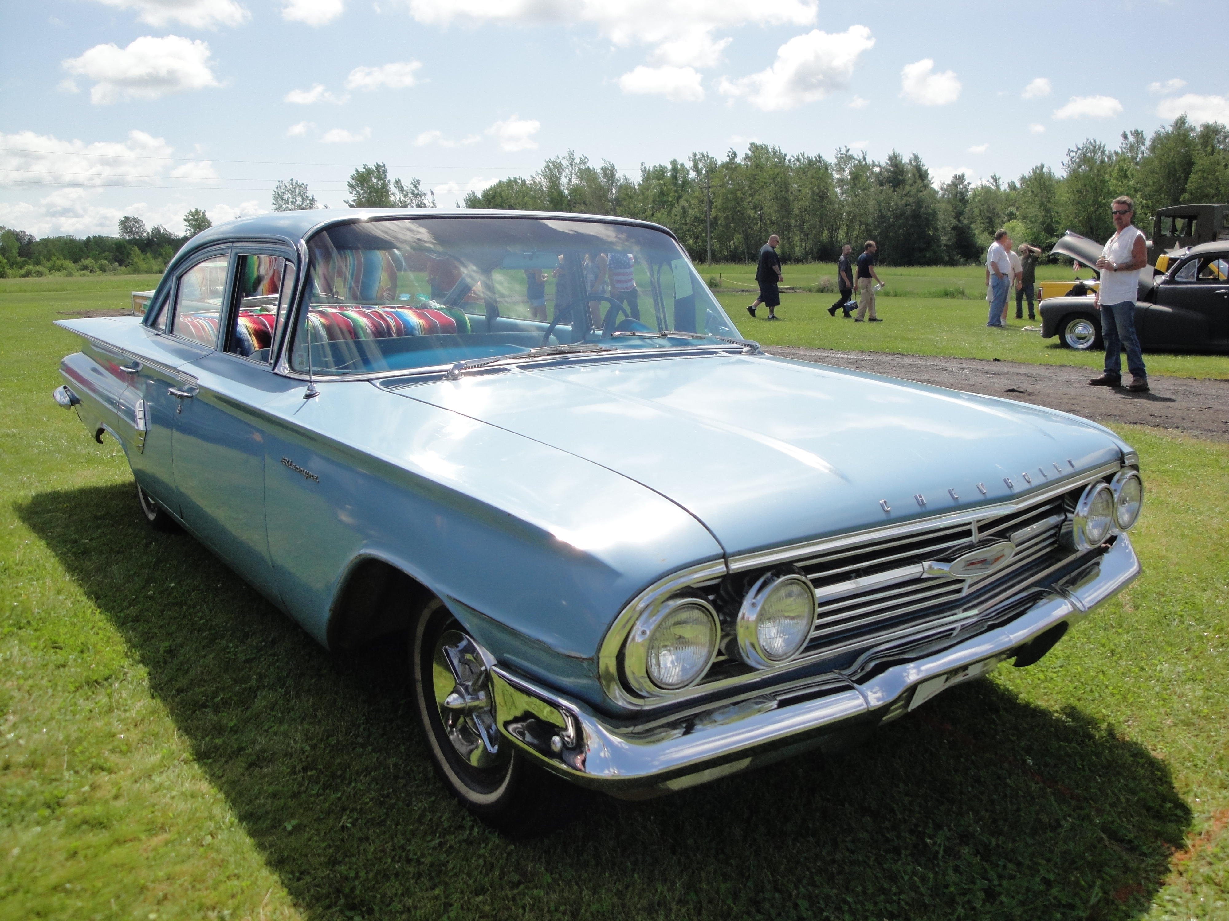 2012 Memorial Day Car Show Hosted by the North Star Chapter of the Studebaker Drivers Club